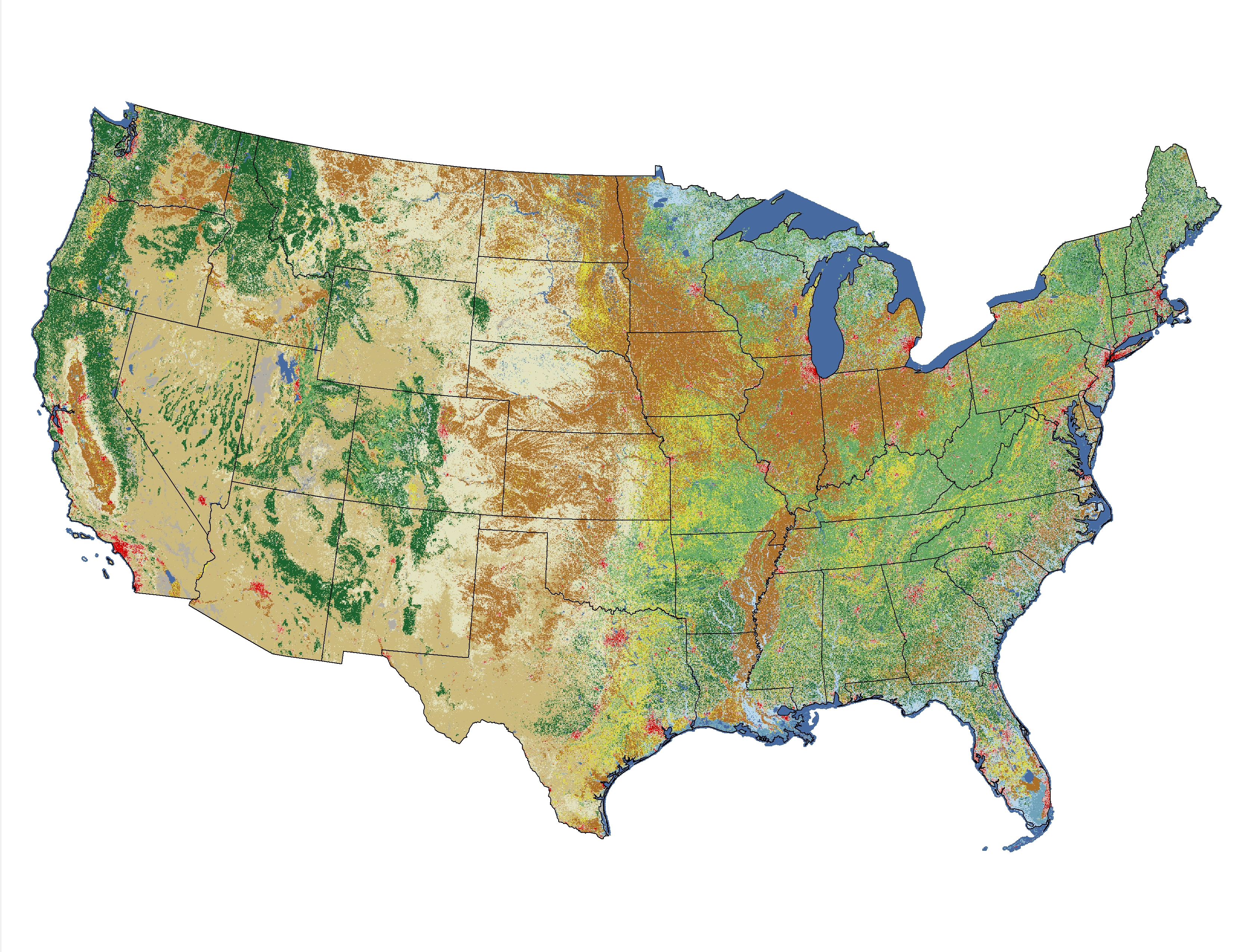 National Land Cover Database 2011